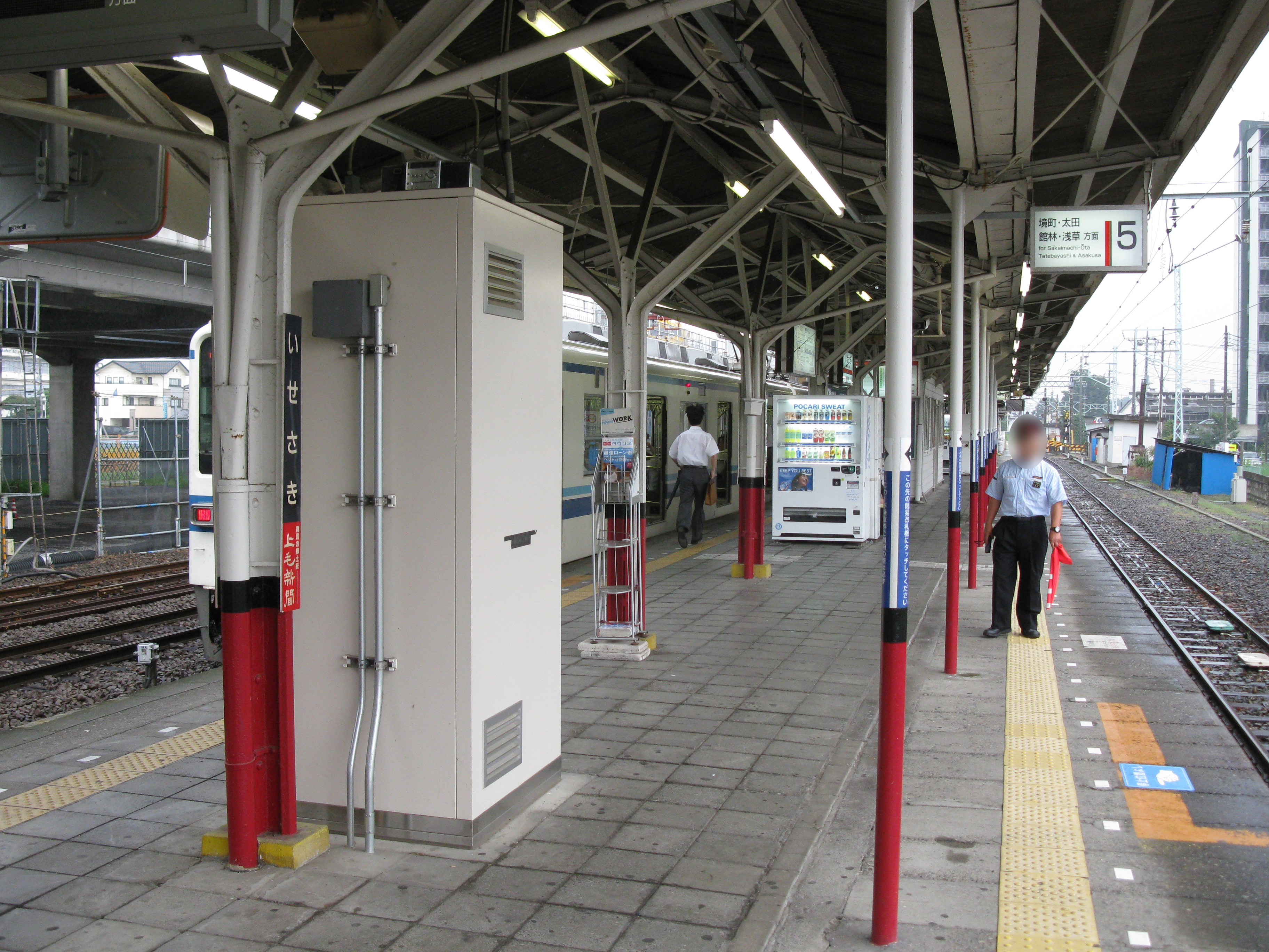 The platform at Isesaki Station on the Tōbu Railway Isesaki Line in Isesaki city, Gumma prefecture, Japan